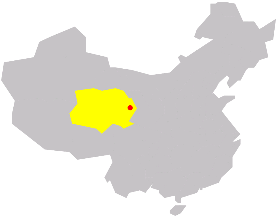 Description: position of Xining in China Source: own work Date: December 2005 Author: --Immanuel Giel 13:42, 16 December 2005 (UTC) Other versions: none Xining Xining Xining